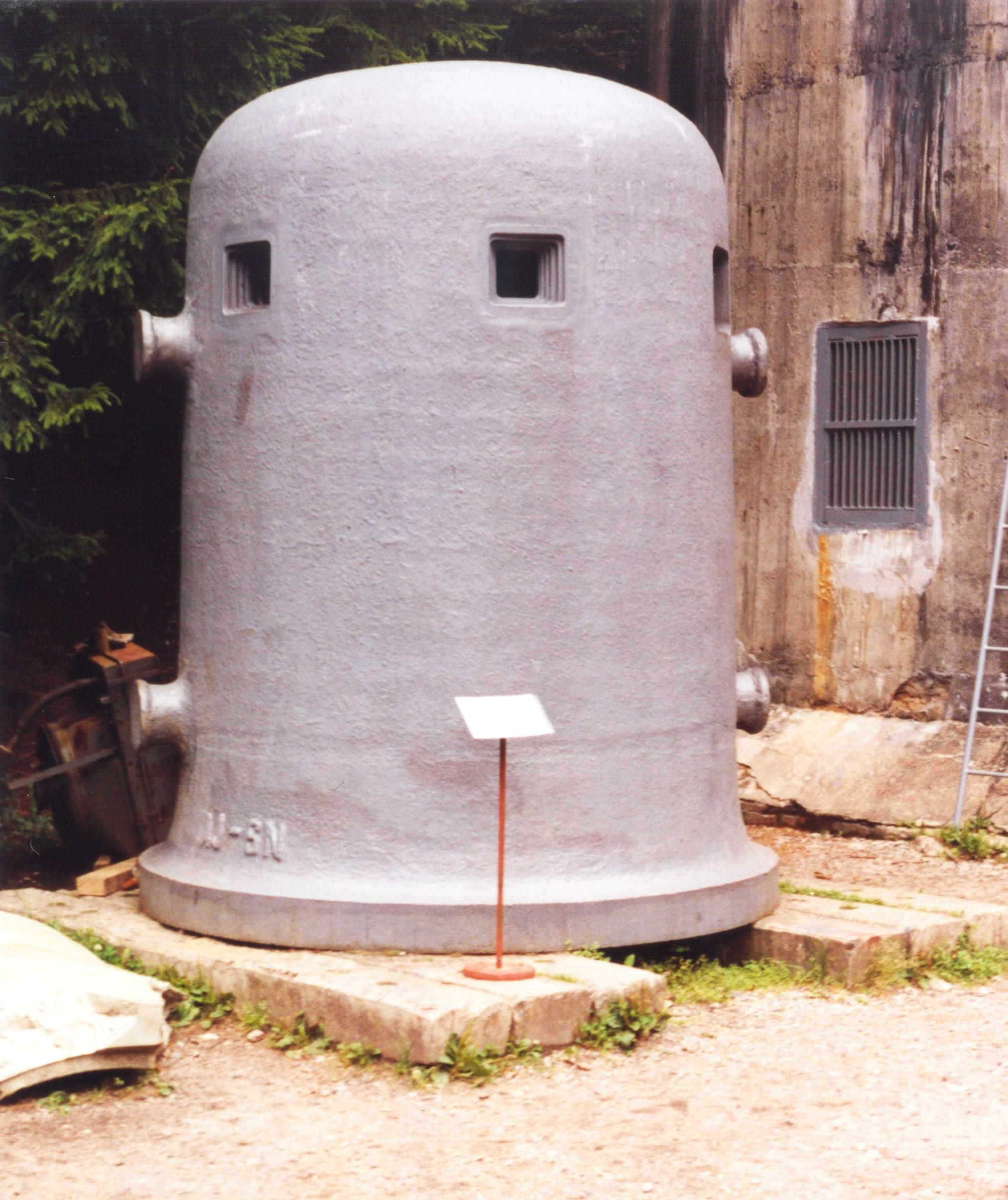 K-S 22a Krok entry casemate, Bouda fortress, Ústí nad Orlicí District, Czech Republic